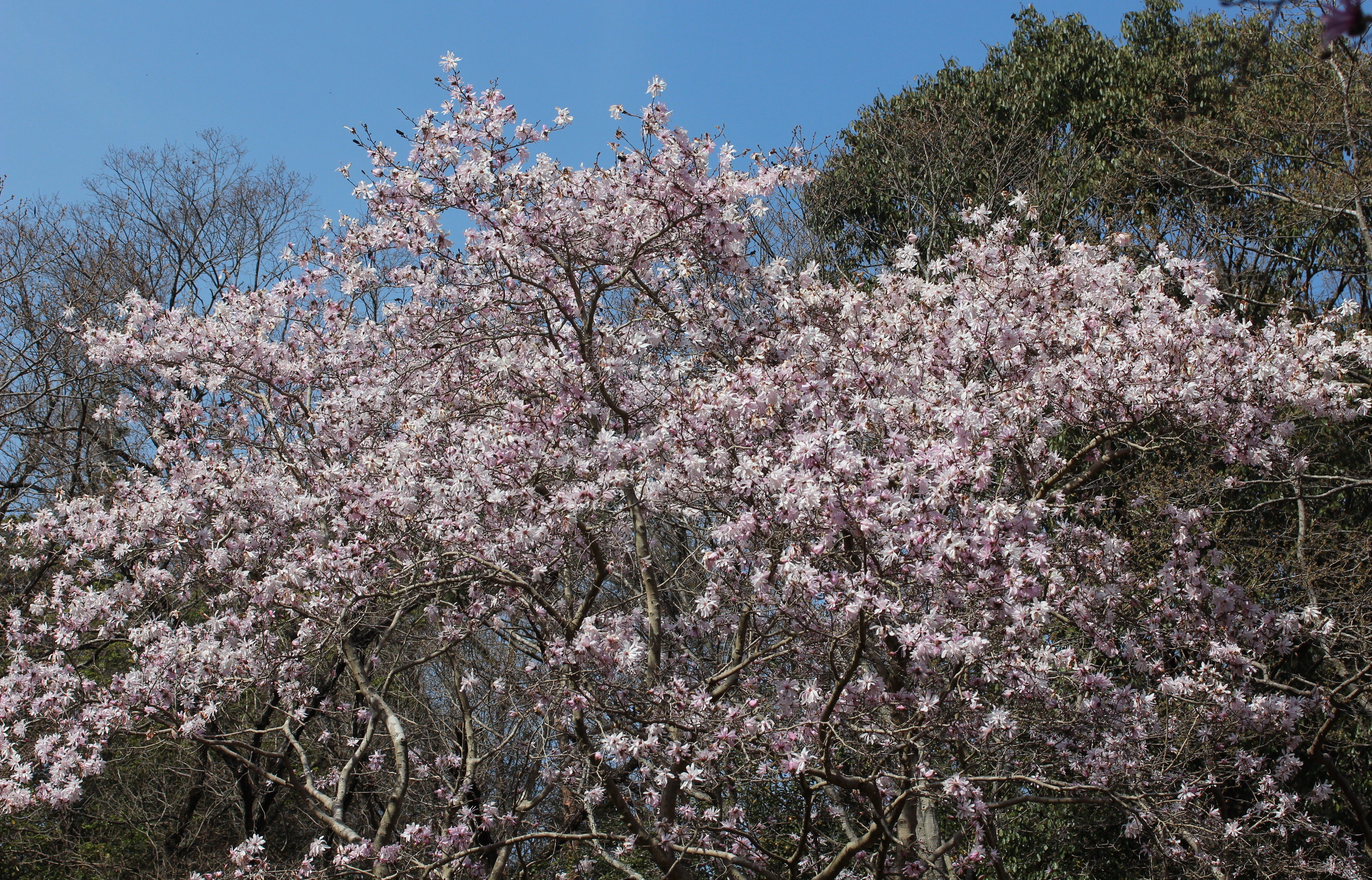 Magnolia stellata in Kasugai, Aichi, Japan.